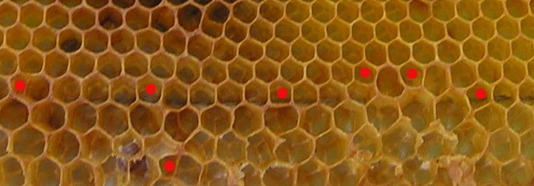 Part of honeycomb where smaller worker bee cells transit into larger drone cells. As a solution, bees periodically build five-edged cells.